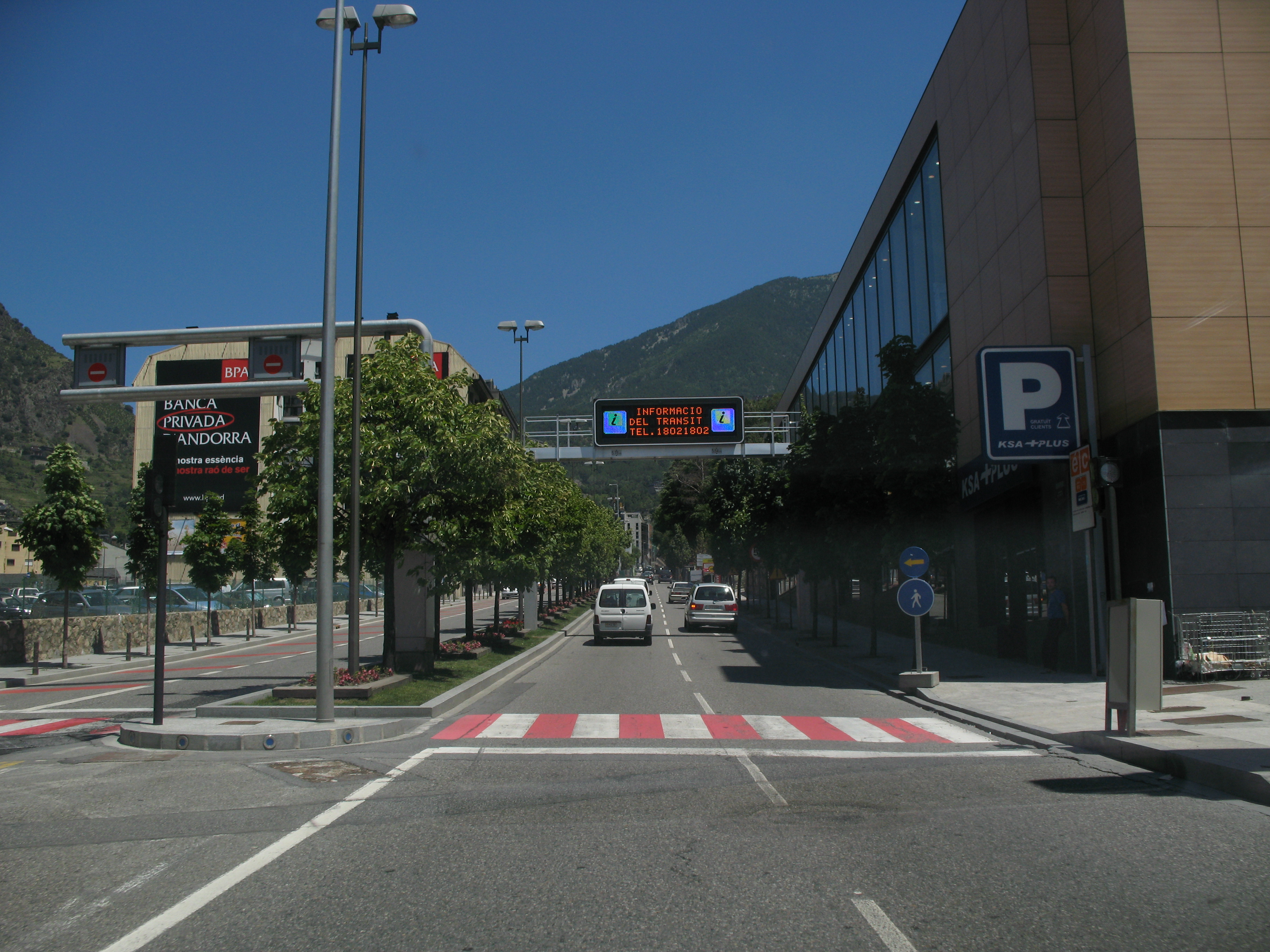 CG-1 road at Andorra.